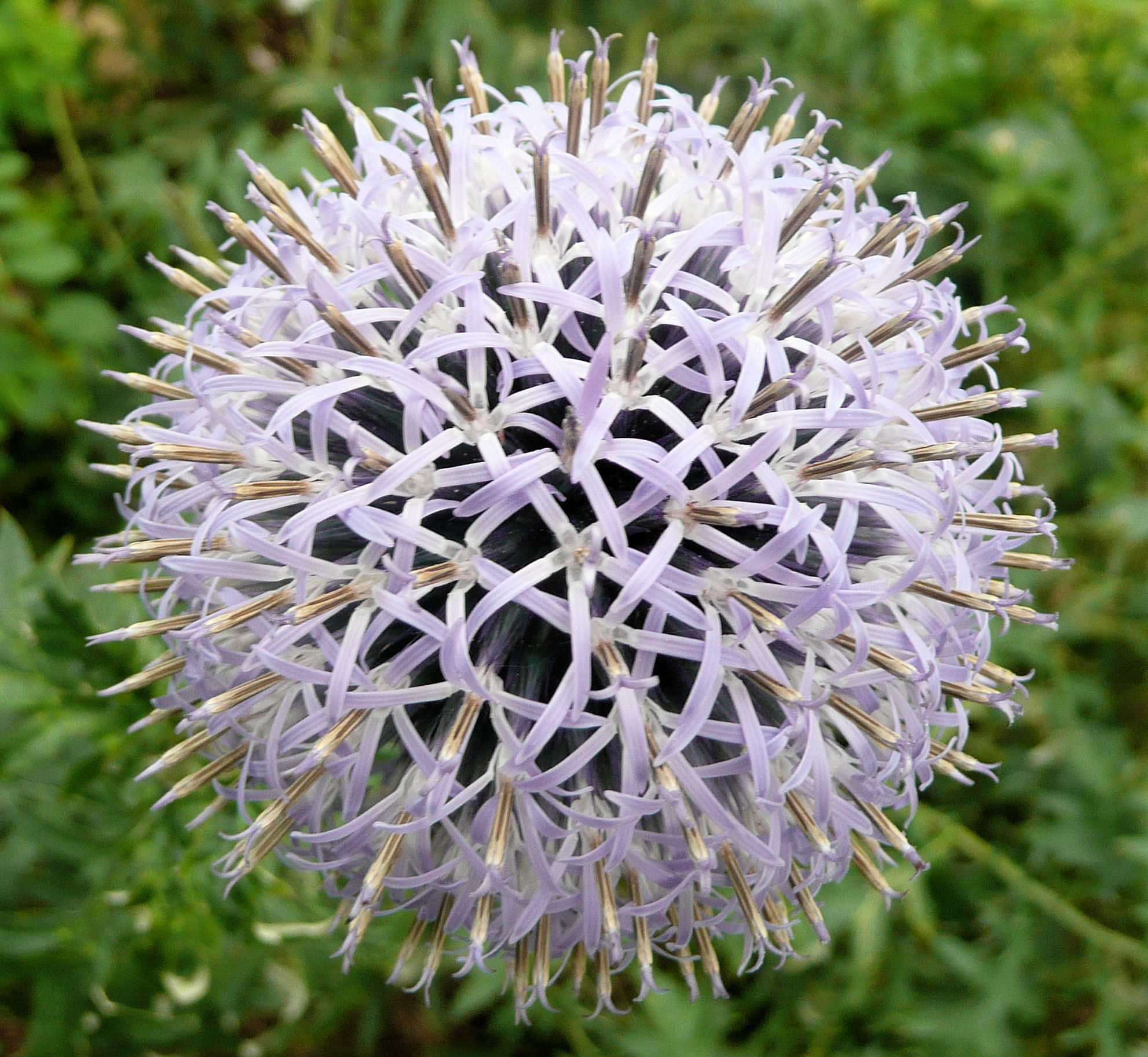 A London garden with a Globe Thistle (Echinops ritro) flower head fully open. The globe is made up of tens of individual flowers.